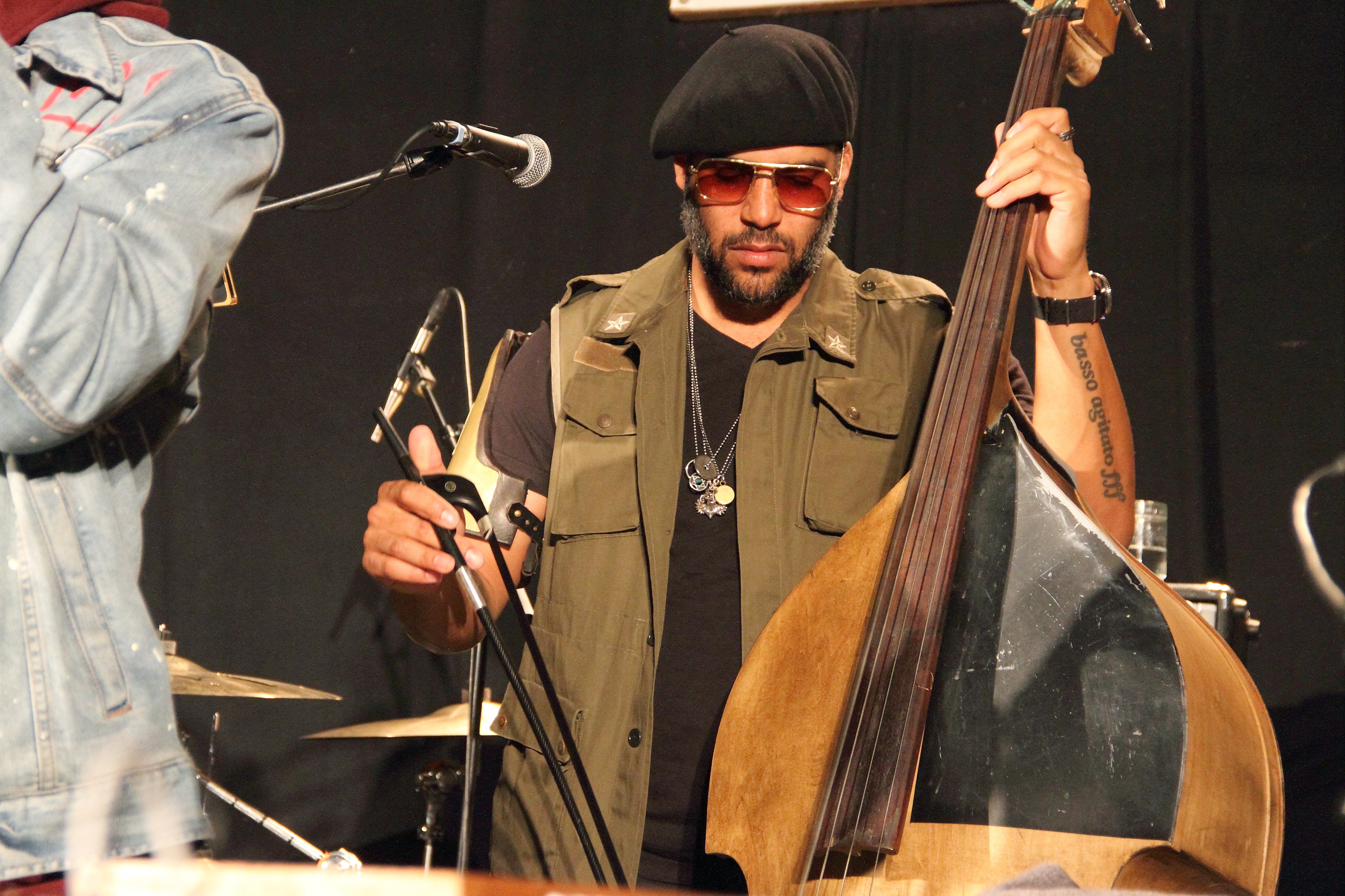 Kamasi Washington & Band at INNtöne Jazzfestival 2018.